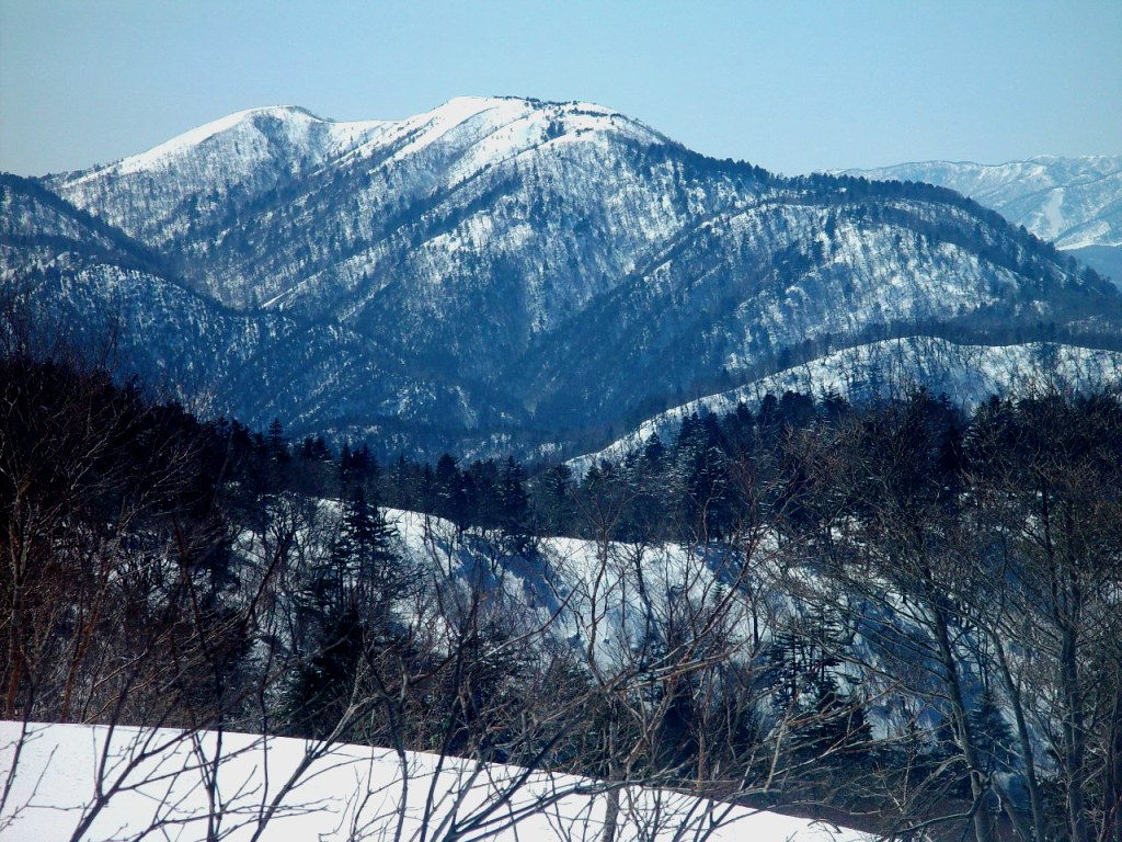 Mount Kaore (Kaore-dake) seen from Mount Kurai